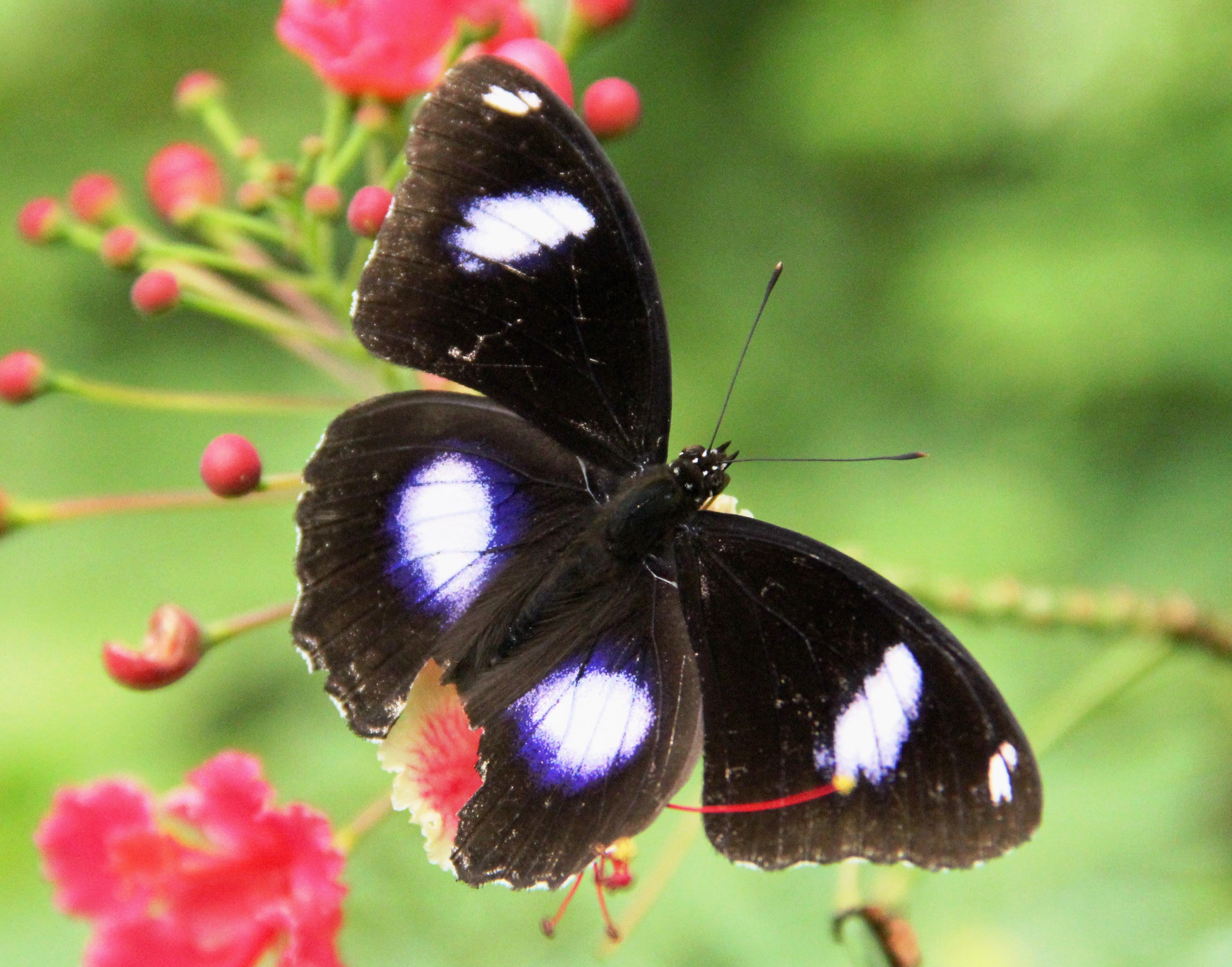 Great Eggfly Male (Hypolimnas bolina)